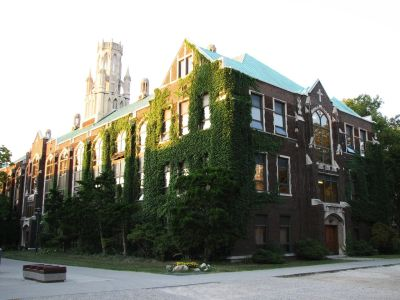 Picture of Dillon Hall, part of the University Of Windsor, ON Campus.